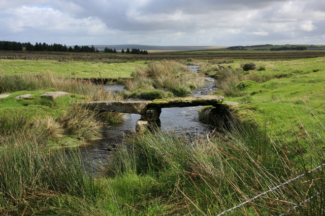 Clapper bridge over Blackbrook River Seen from the permitted access enclosure at Fice's Well.